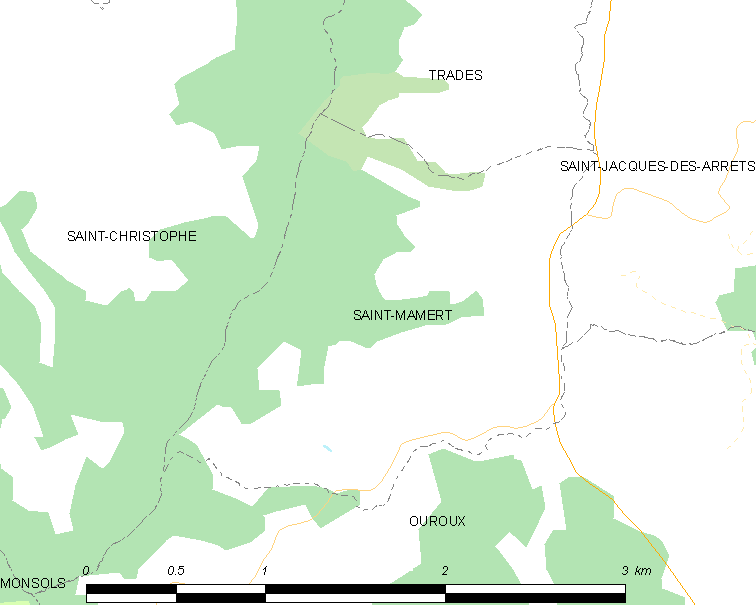 Map of French municipality